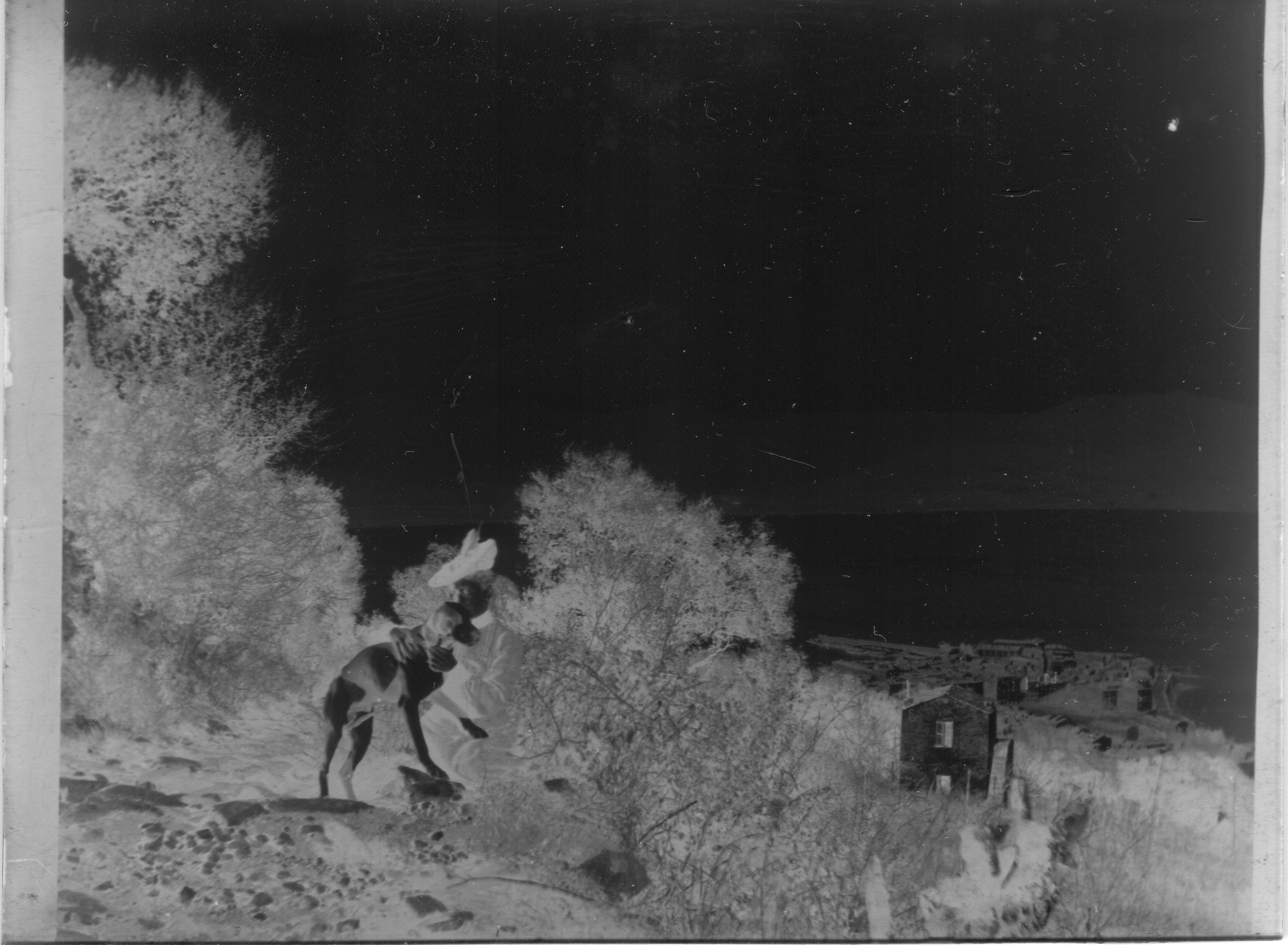 Scanned photographic plate. The plate was bought at a flea market in France. The picture shows a woman with a dog.